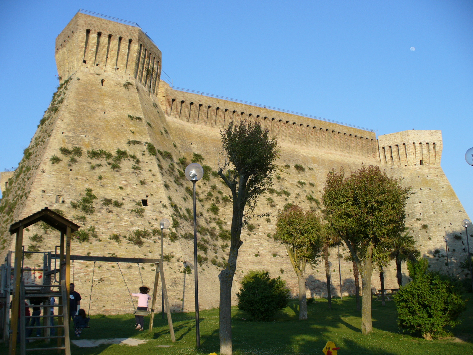 All my Google Earth Placemarks